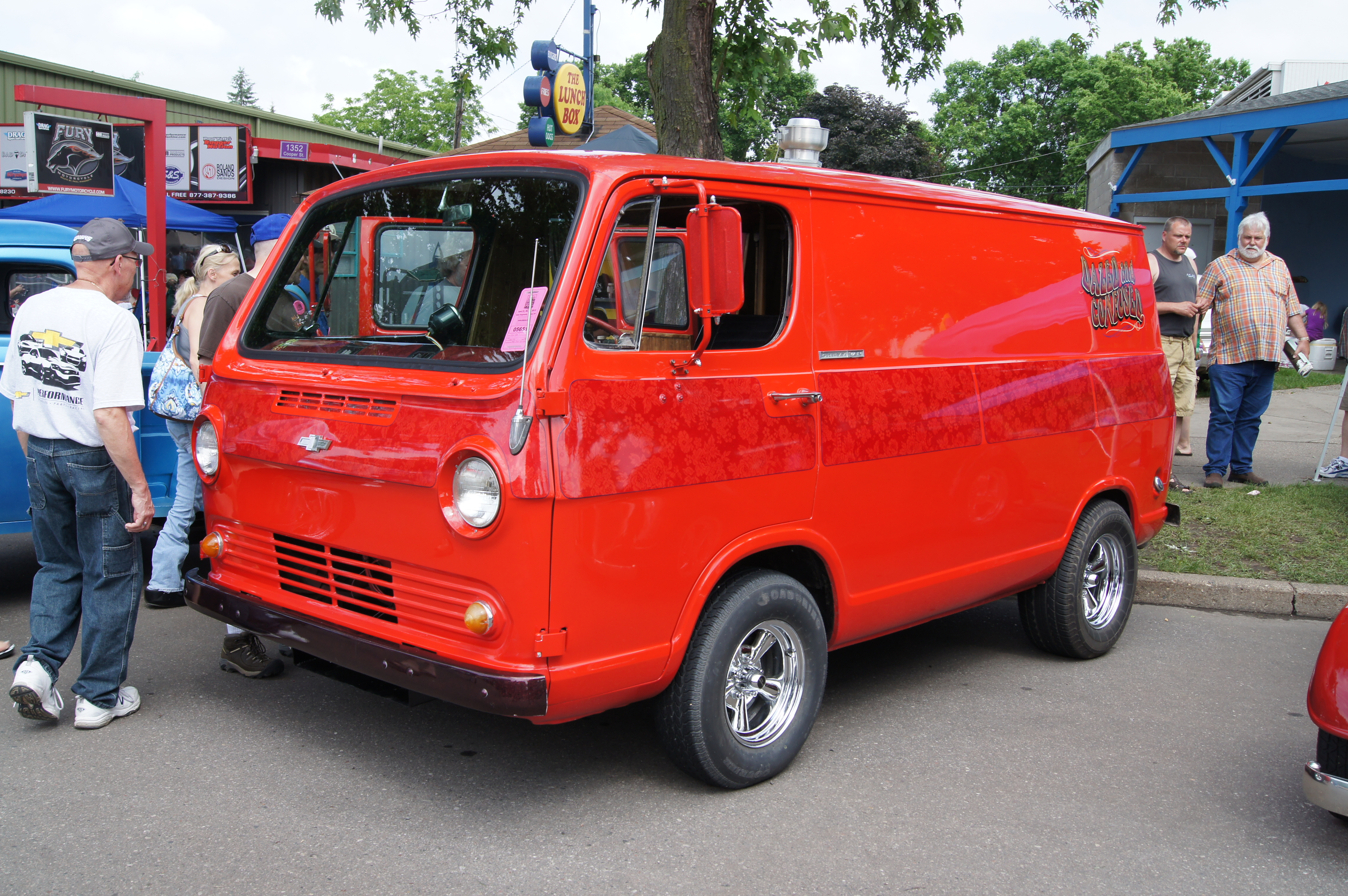 1964 Chevrolet Van.MSRA “BACK TO THE 50′s” - 40th ANNIVERSARY - June 21-23, 2013 - State Fairgrounds, St. Paul, Minnesota.